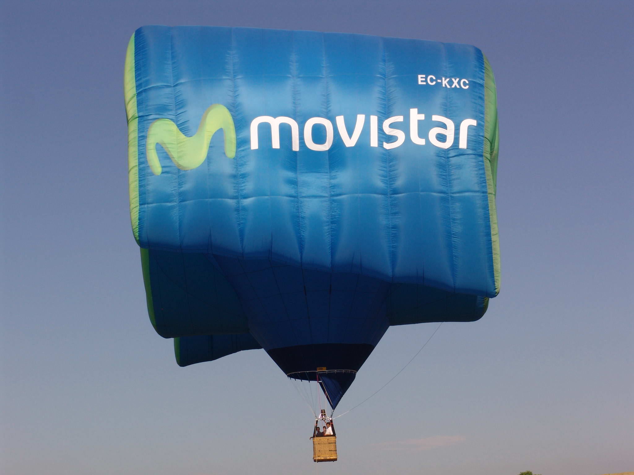 EC-KXC hot air balloon. Manufactured by Ultramagic, sponsored by Movistar and operated by